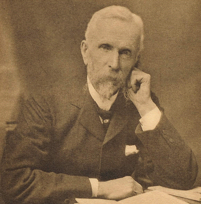 Portrait of John Aitken (1839–1919) - a Scottish meteorologist, physicist and marine engineer.